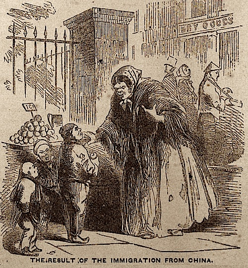 cartoon "The result of the immigration from China" (Chinese Irish family)